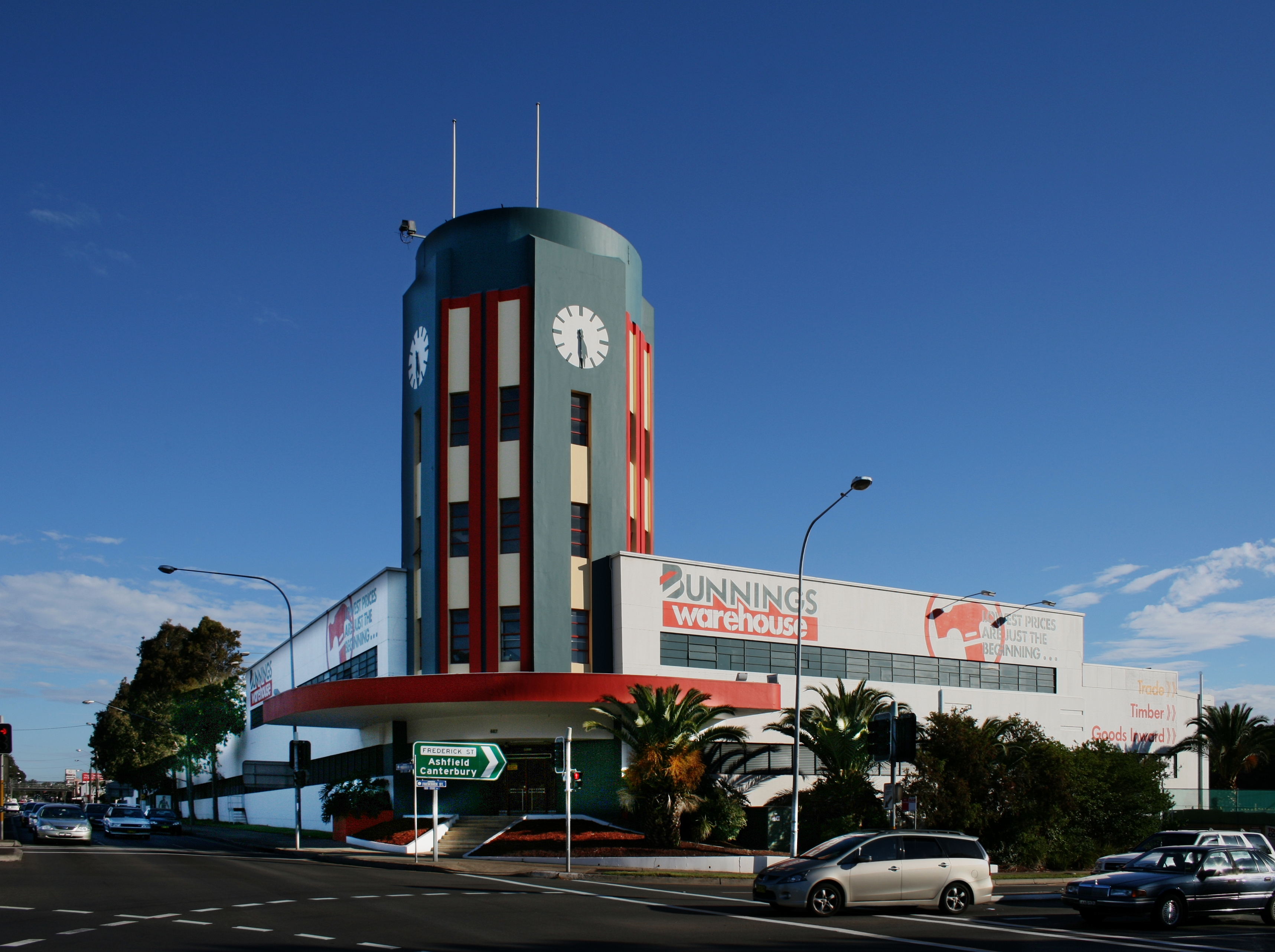 The Peek Frean tower at the intersection of Parramatta road and Frederick street, Ashfield. The property is now operated by the Ashfield branch of Bunnings Warehouse.